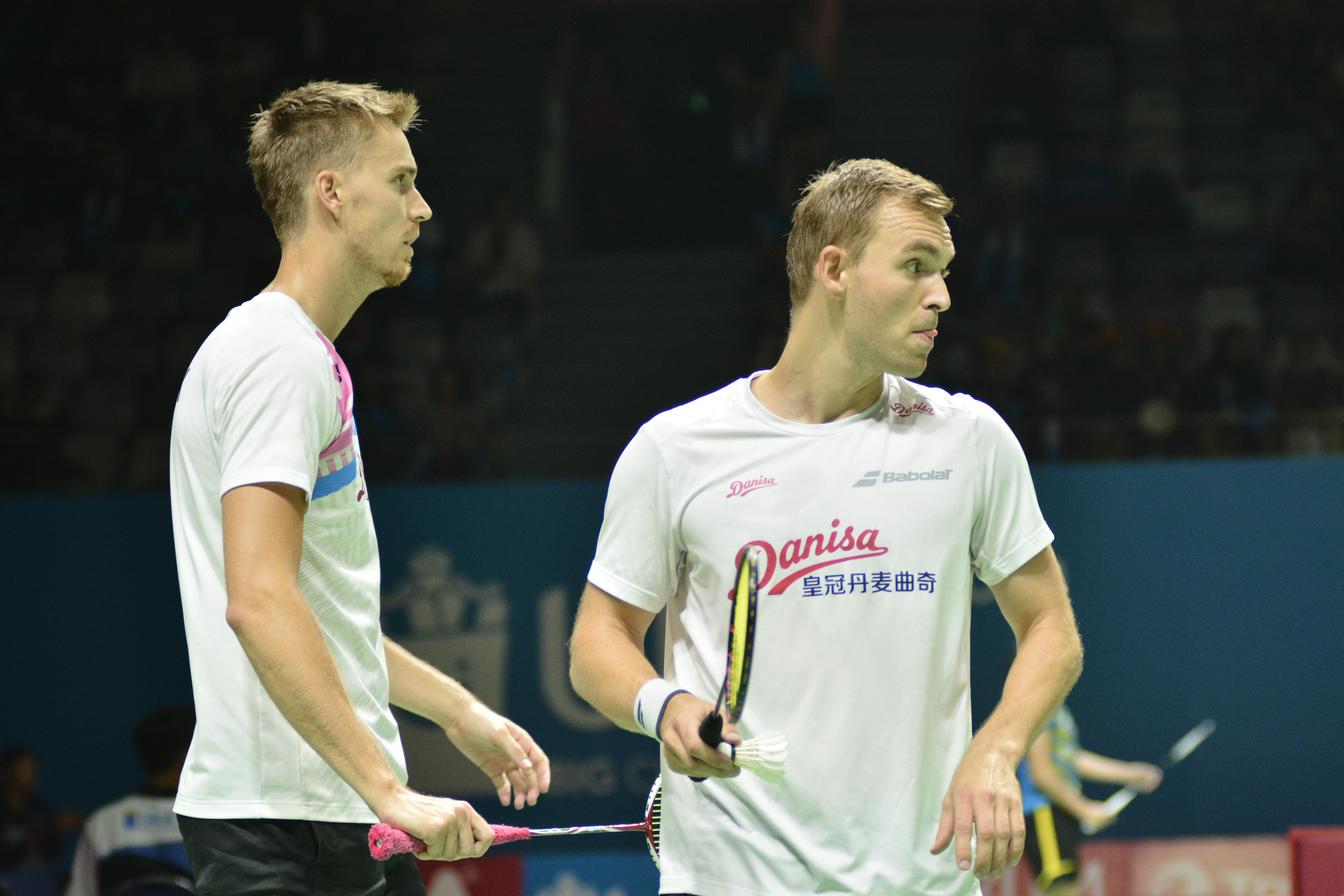 Mads Pieler Kolding at Indonesia Open 2018 badminton tournament